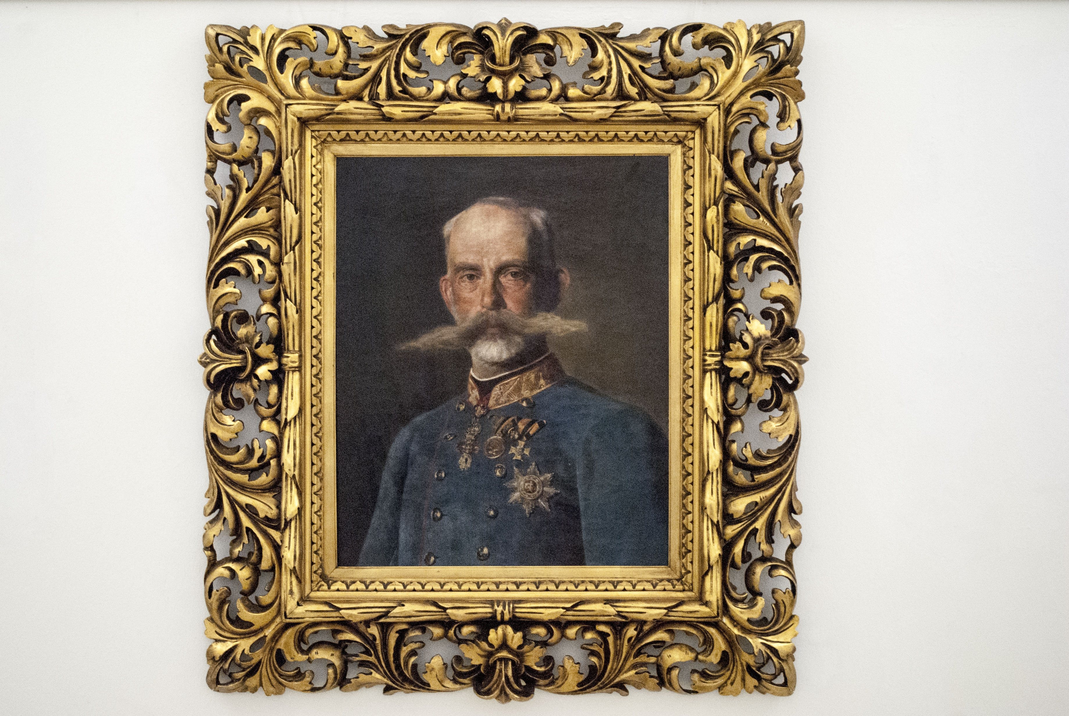 Papyrusmuseum Dieses Bild wurde anlässlich des österreichischen Tags des Denkmals 2013 in Wien eingereicht.